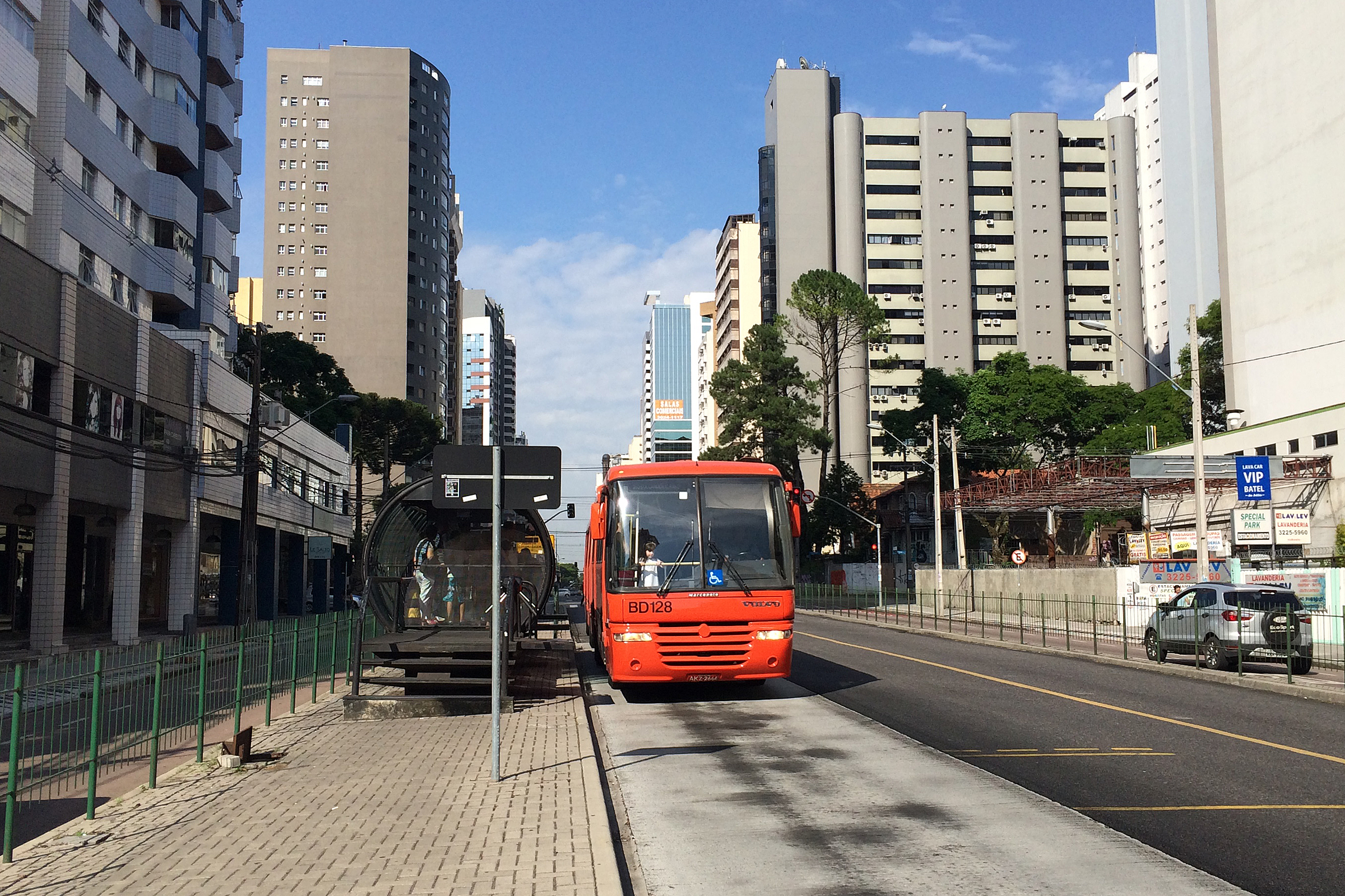 Bus stop at 7 de Setembro Ave., Eixo Sul, Rede Integrada de Transporte (RIT), BRT Curitiba, Brazil. The tube bus stations were displaced to allow buses to overtake using the new third lane within the existing right of way and without reducing lane width of the lateral local streets.